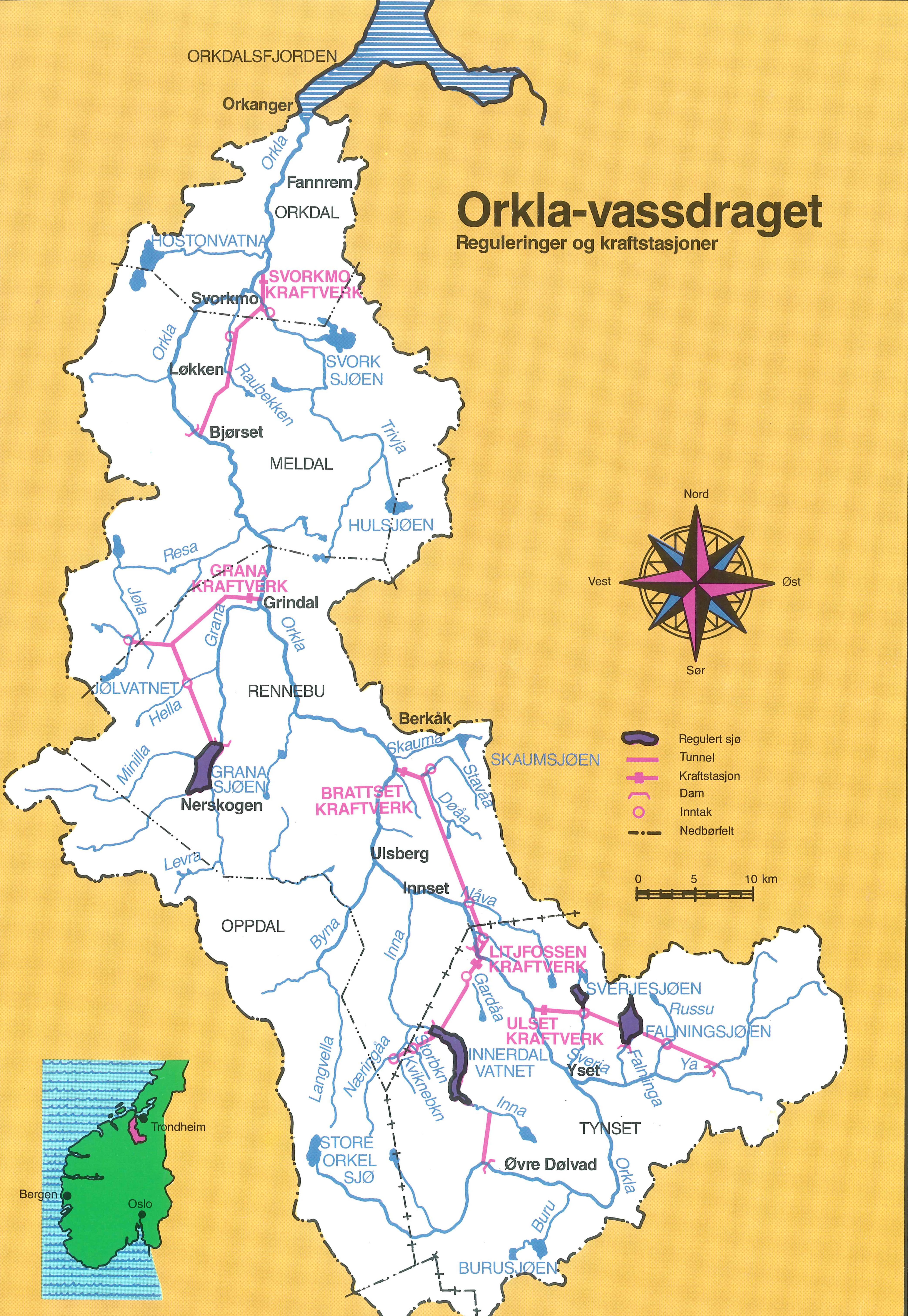 Overview of Orkla river hydro electric power plant system, compiled around the time of construction (1986)